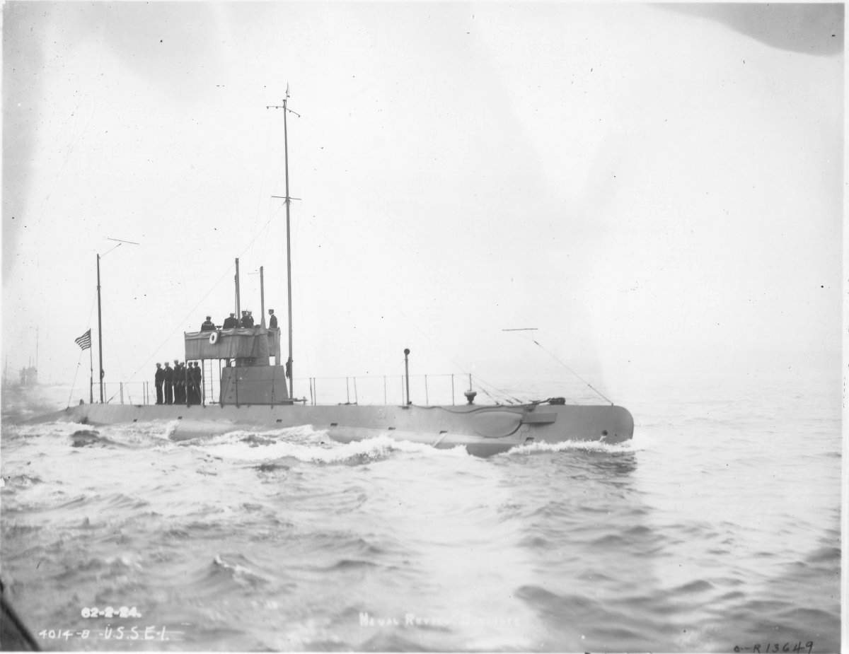 USS E-1; E-1 (SS-24) underway, starboard side view, at the Naval Review at New York City, October 4, 1912. US Navy photo from NARA # 19N13649, courtesy of Daniel Dunham.